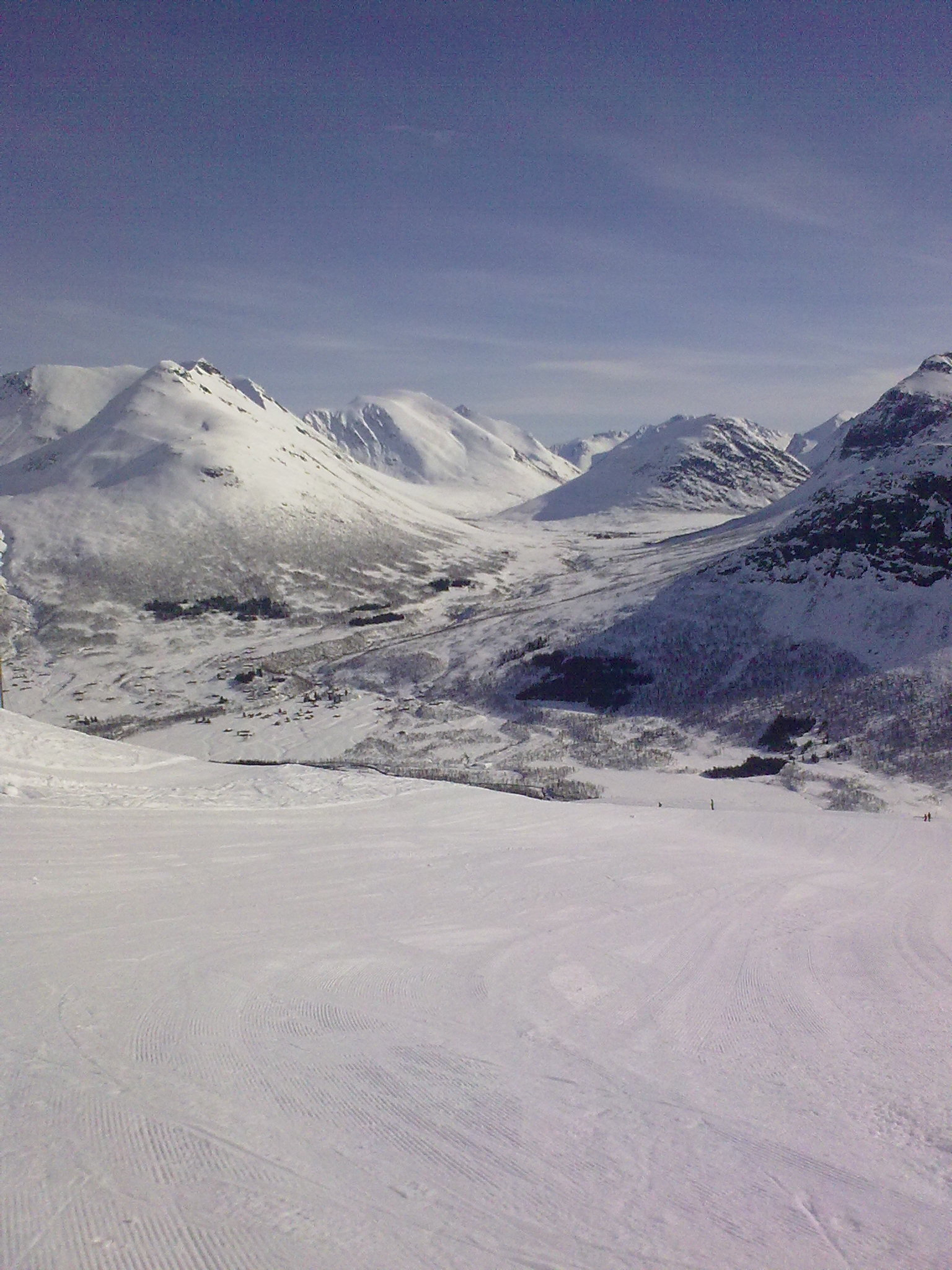 Picture of Stordalen, Møre og Romsdal, Norway taken from the top of Arena Overøya skiing facility. (bad file name)